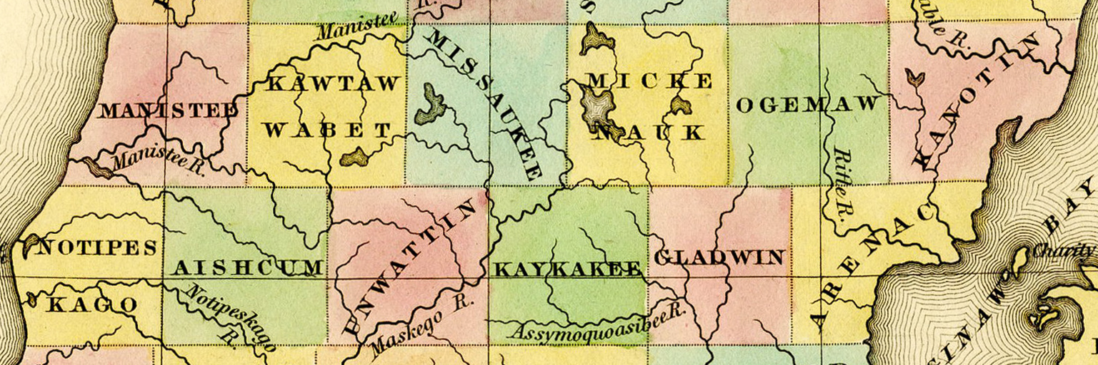 Detail of A New Map of Michigan With Its Canals, Roads & Distances by H.S. Tanner, 1842, showing: Manistee County Kautawaubet County (misspelled "Kawtawwabet") (later renamed Wexford County) Missaukee County Mikenauk County (misspelled "Mickenauk") (later renamed Roscommon County) Ogemaw County Kanotin County (later renamed Iosco County) Notipekago County (misspelled "Notispekago") (later renamed Mason County) Aishcum County (later renamed Lake County) Unwattin County (later renamed Osceola County) Kaykakee County (later renamed Clare County) Gladwin County Arenac County